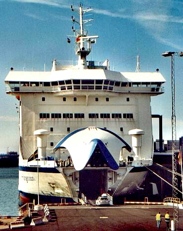 RoRo ferry Nils Holgersson